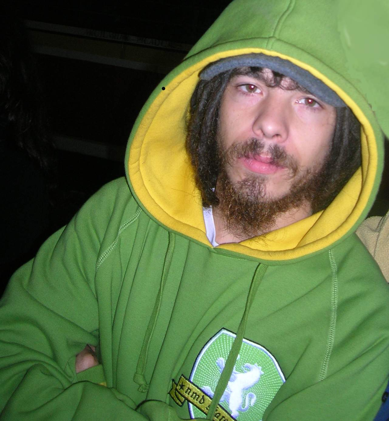 Rapsusklei after acting live at the Bilbao Urban Musikaldia, at Vista Alegre bullring.